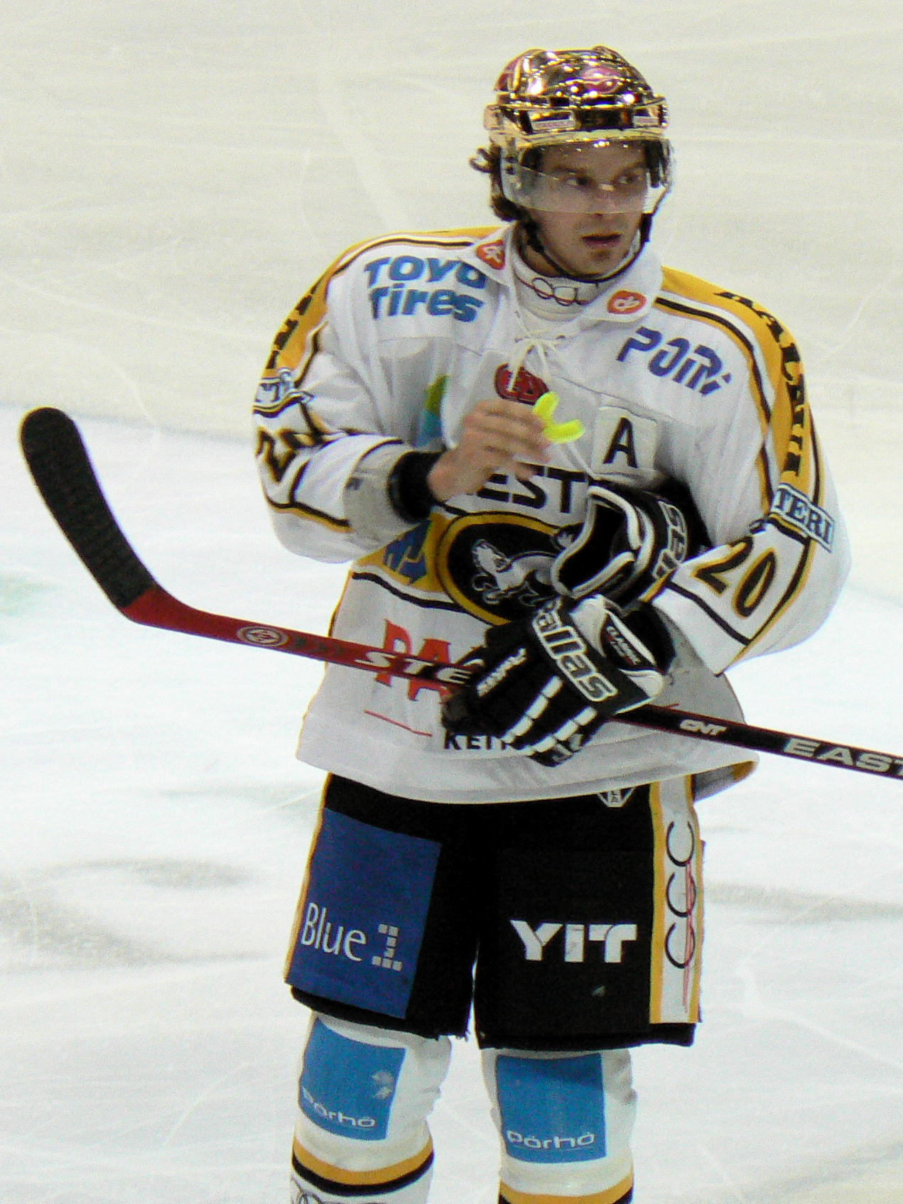 Finnish ice hockey forward Janne Pesonen of Kärpät Oulu in September 2007, wearing the golden helmet of the leading scorer of his team.